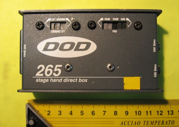 Direct-Box DOD - photo